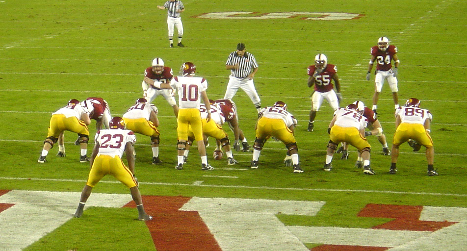 QB John David Booty (#10) starting a drive at Stanford Stadium on November 4, 2006. The tailback (#23) is Chauncey Washington.